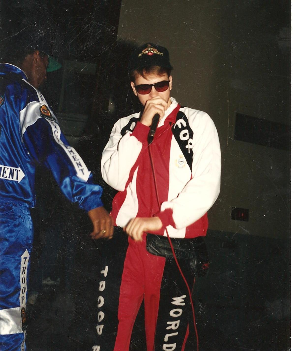 MC Shadow performing in Toronto, Ontario Canada 1988